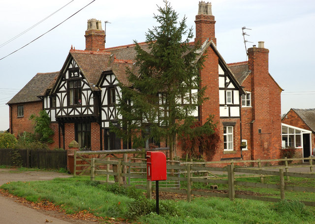 The Gables, Calke House that stands in Calke village near to the exit from Calke Park. The date above the door reads 1880.